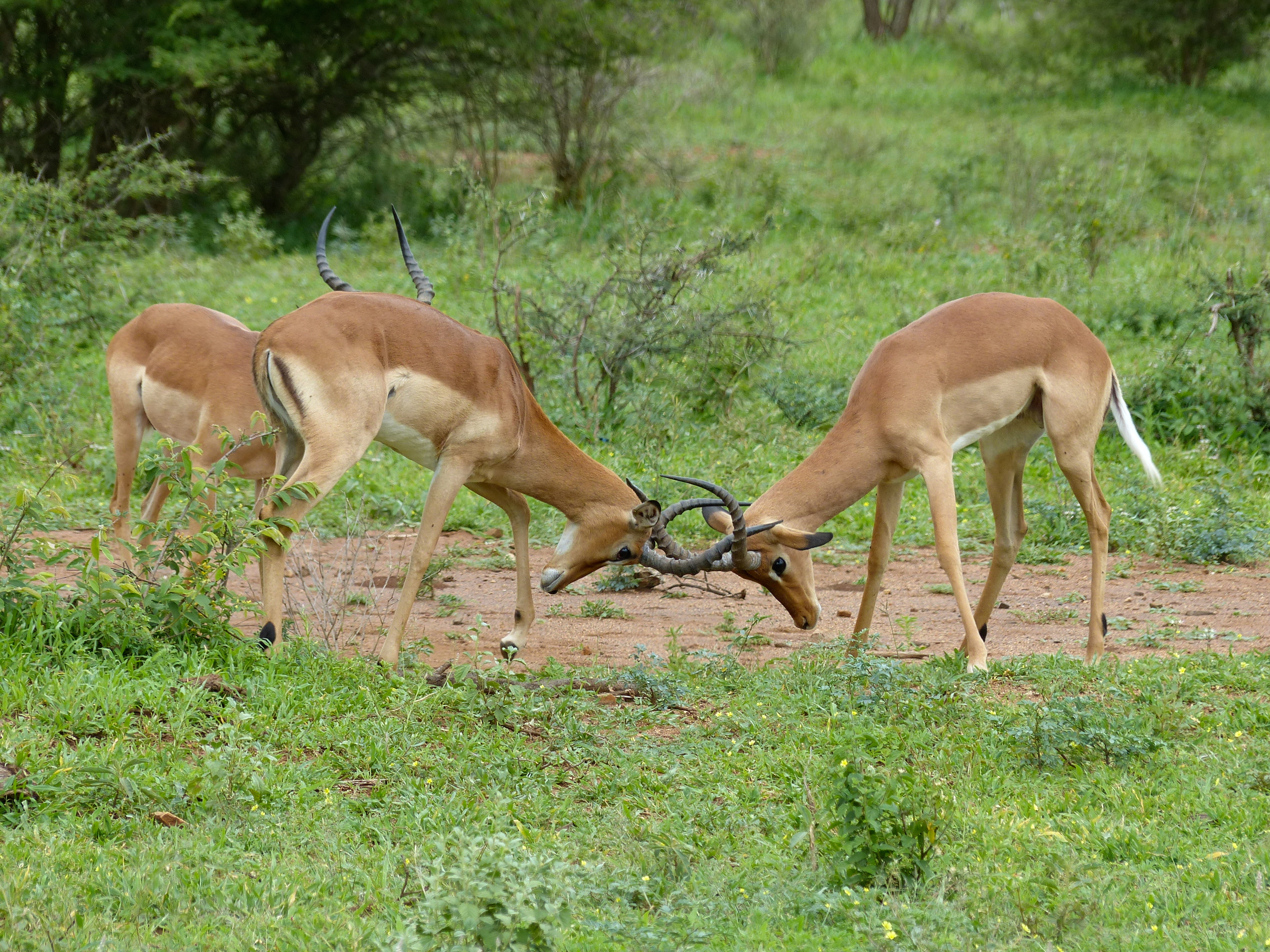 H10 Road South of Tshokwane, Kruger NP, SOUTH AFRICA